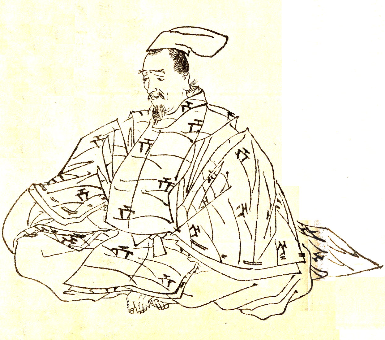 Ōe no Asatsuna(大江朝綱) was a japanese court noble and scholar in Heian period.